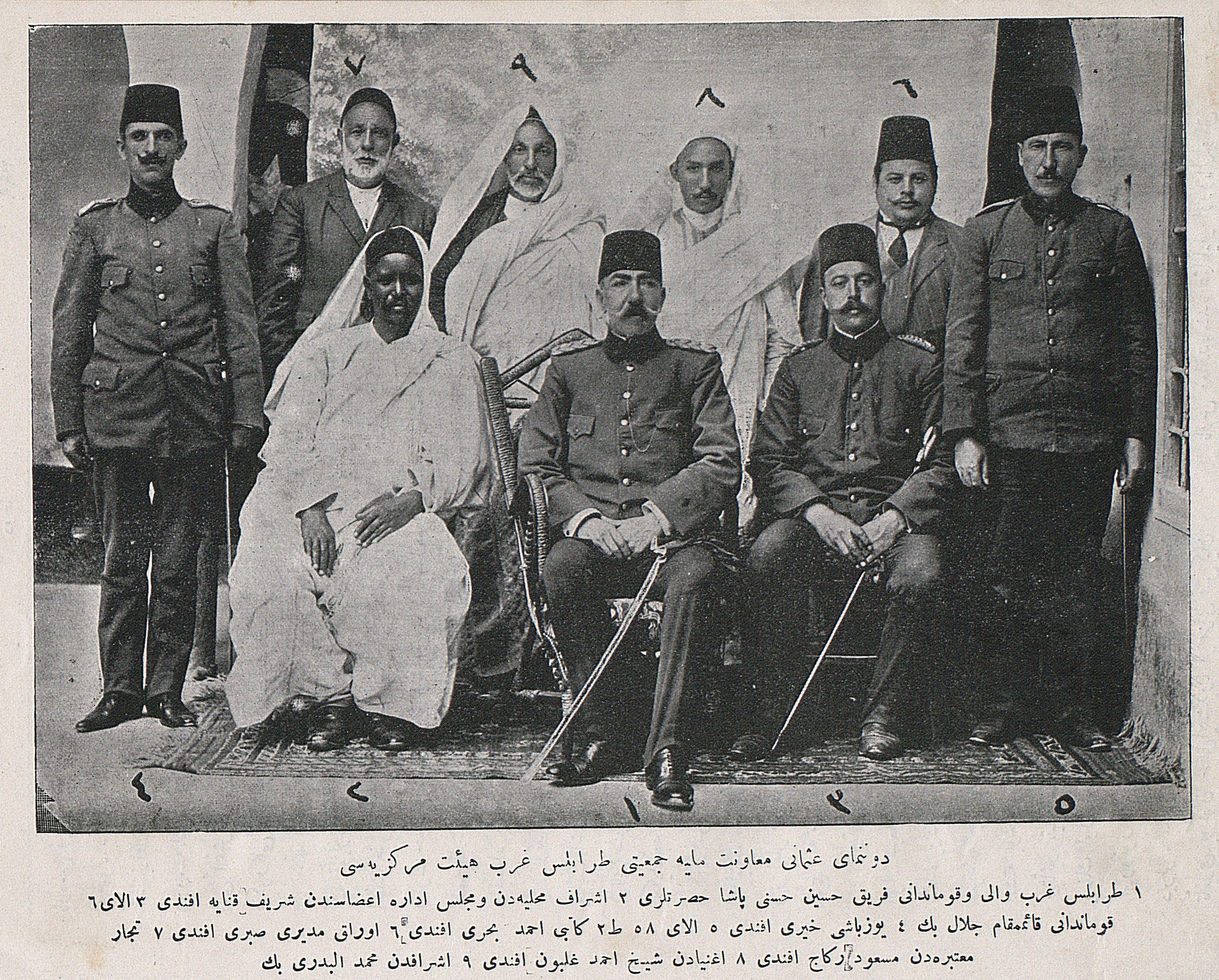 Hüseyin Hüsnü Pasha (1850 - 1926) Ottoman general and statesman